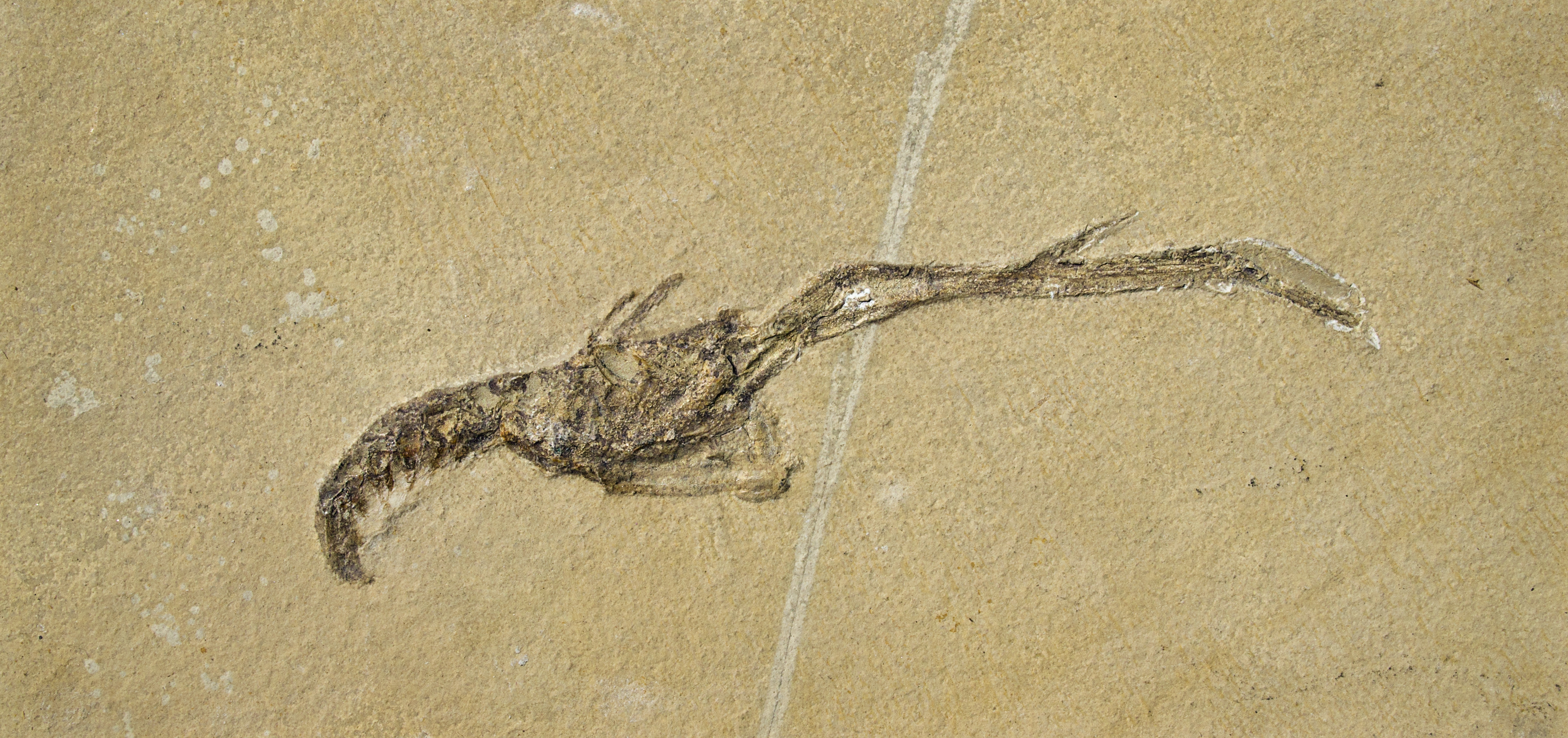 Mecochirus longimanatus Stage: Tithonian 150.8 ± 4 Ma and 145.5 ± 4 Ma (million years ago) Locality : Solnhofen Plattenkalk, Solnhofen, Germany